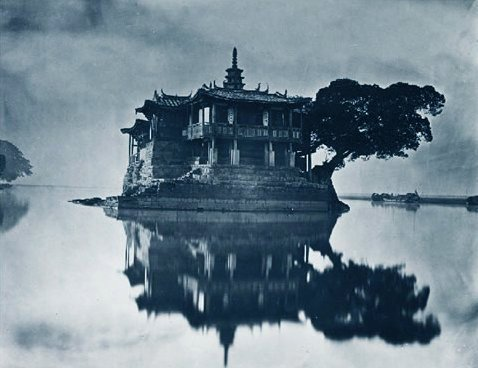 The Island Pagoda, circa 1871, by John Thomson. In the public domain. Source [1]